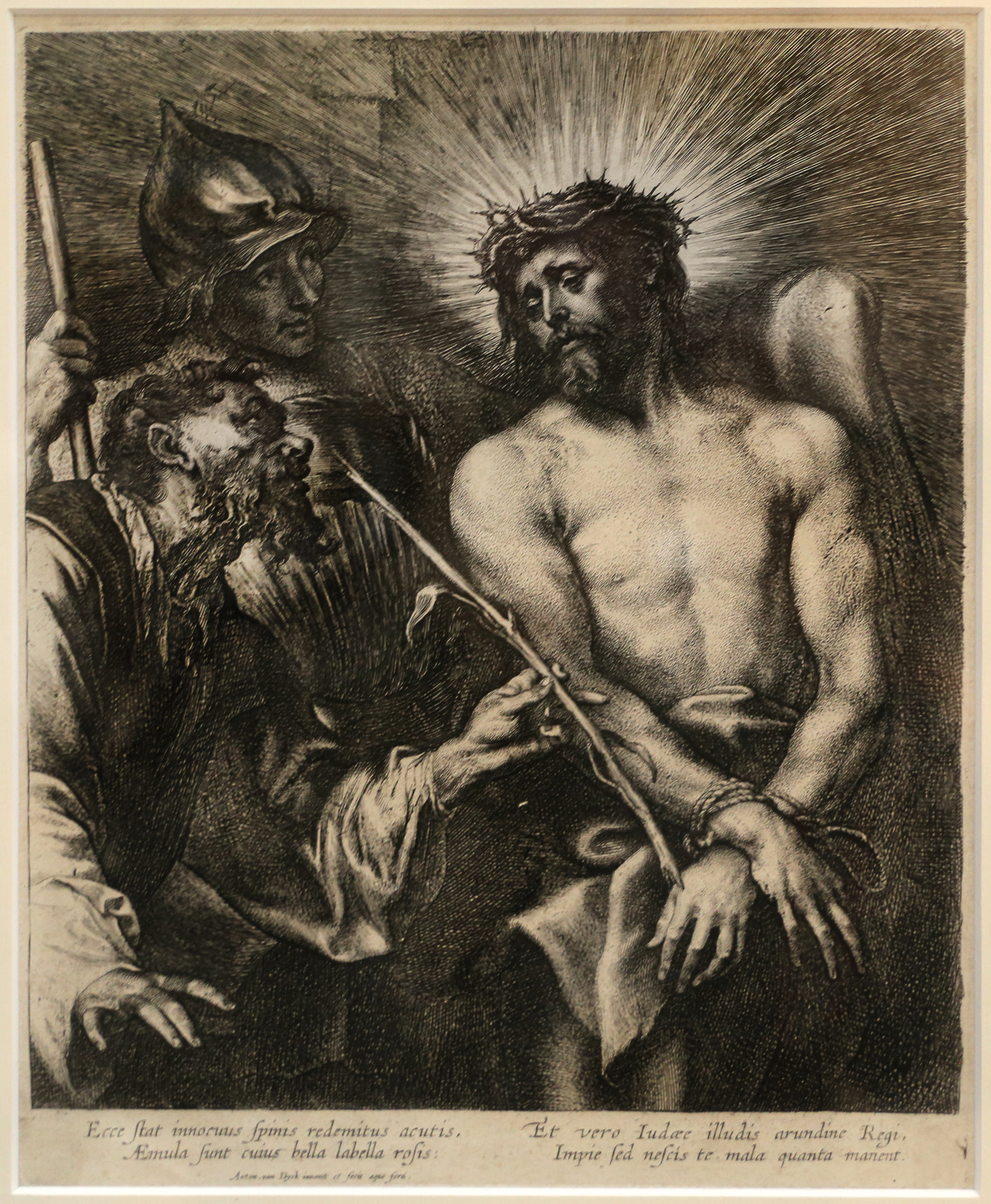 Sacro e profano (2018 exhibition)